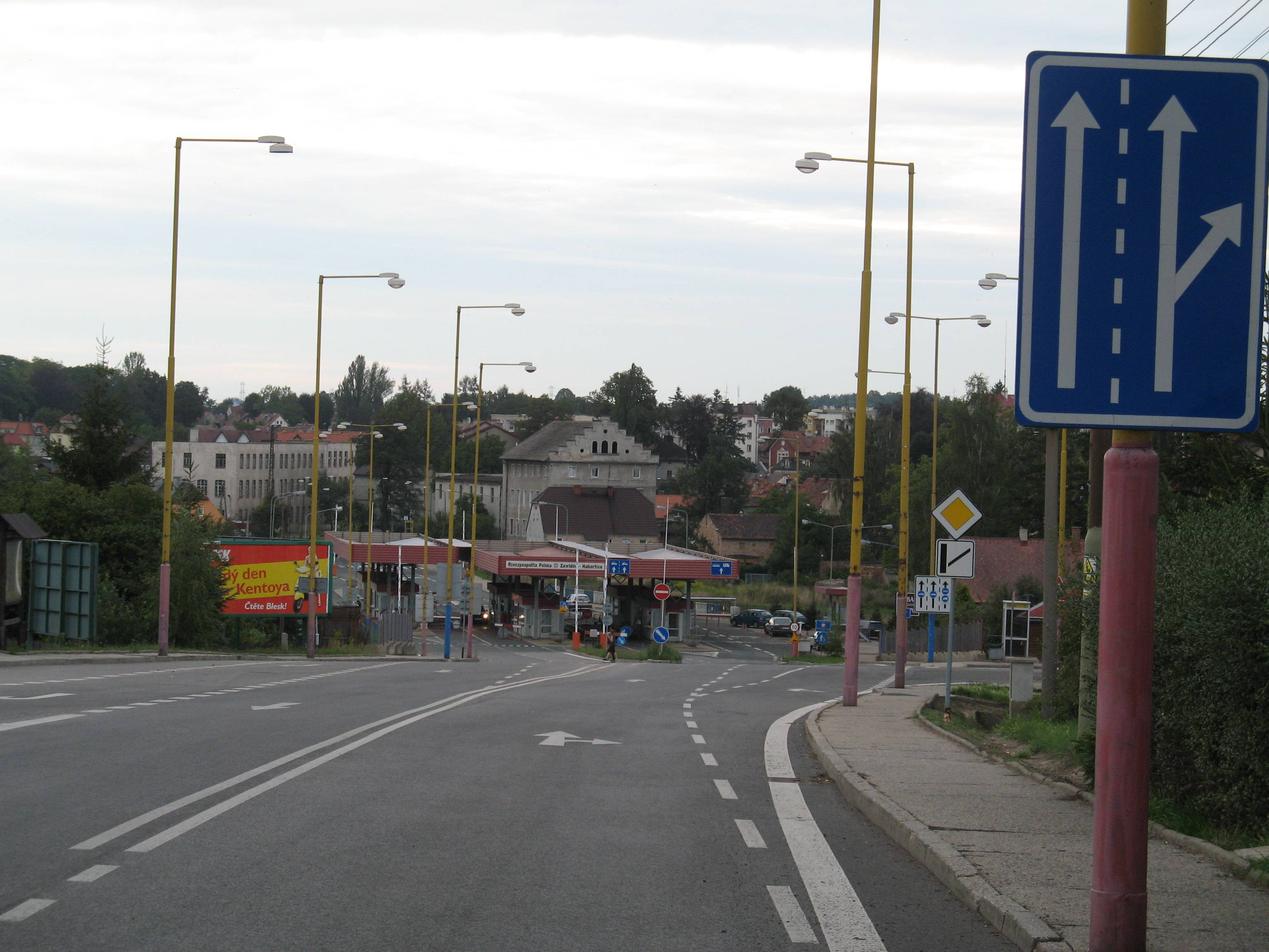 Border crossing between Habartice (Czech Republic) and Zawidów (Poland)